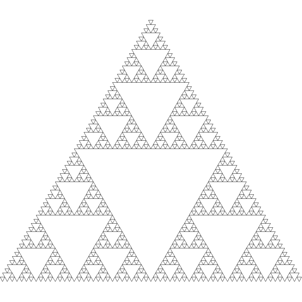 S3 Sierpinski L5 All